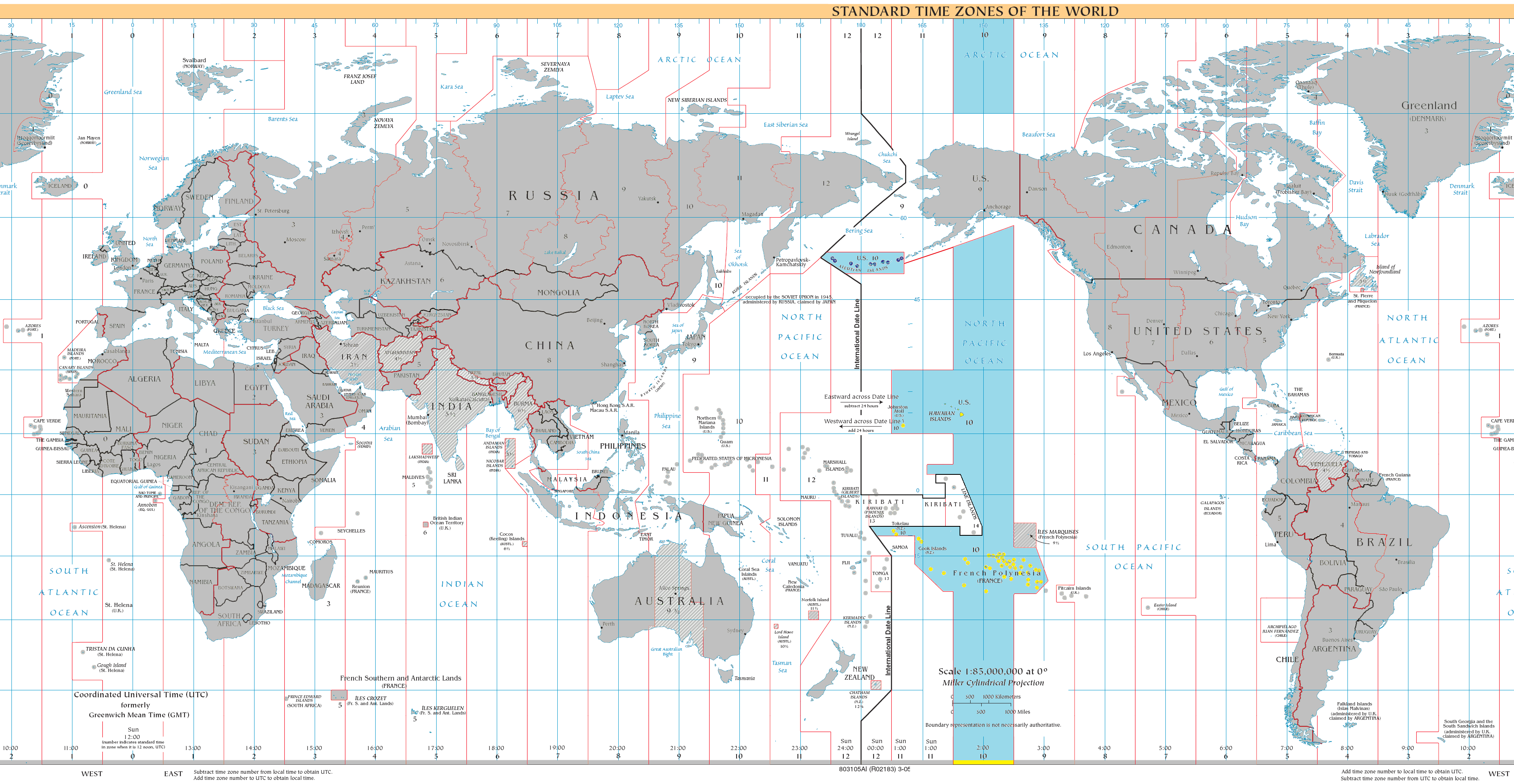 World map of time zones as of 2008, on the Miller Cylindrical Projection and with highlighted UTC-10 zone. Dark Blue - UTC-10 during Northern Winter / Southern Summer Orange - UTC-10 during Northern Summer / Southern Winter Yellow - UTC-10 all year round Light Blue - UTC-10 sea areas